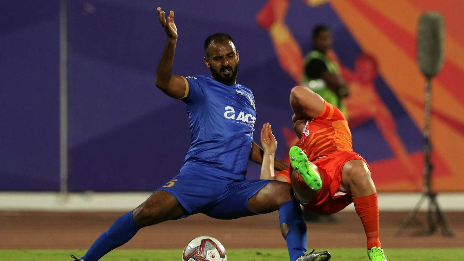 Playing in ISL